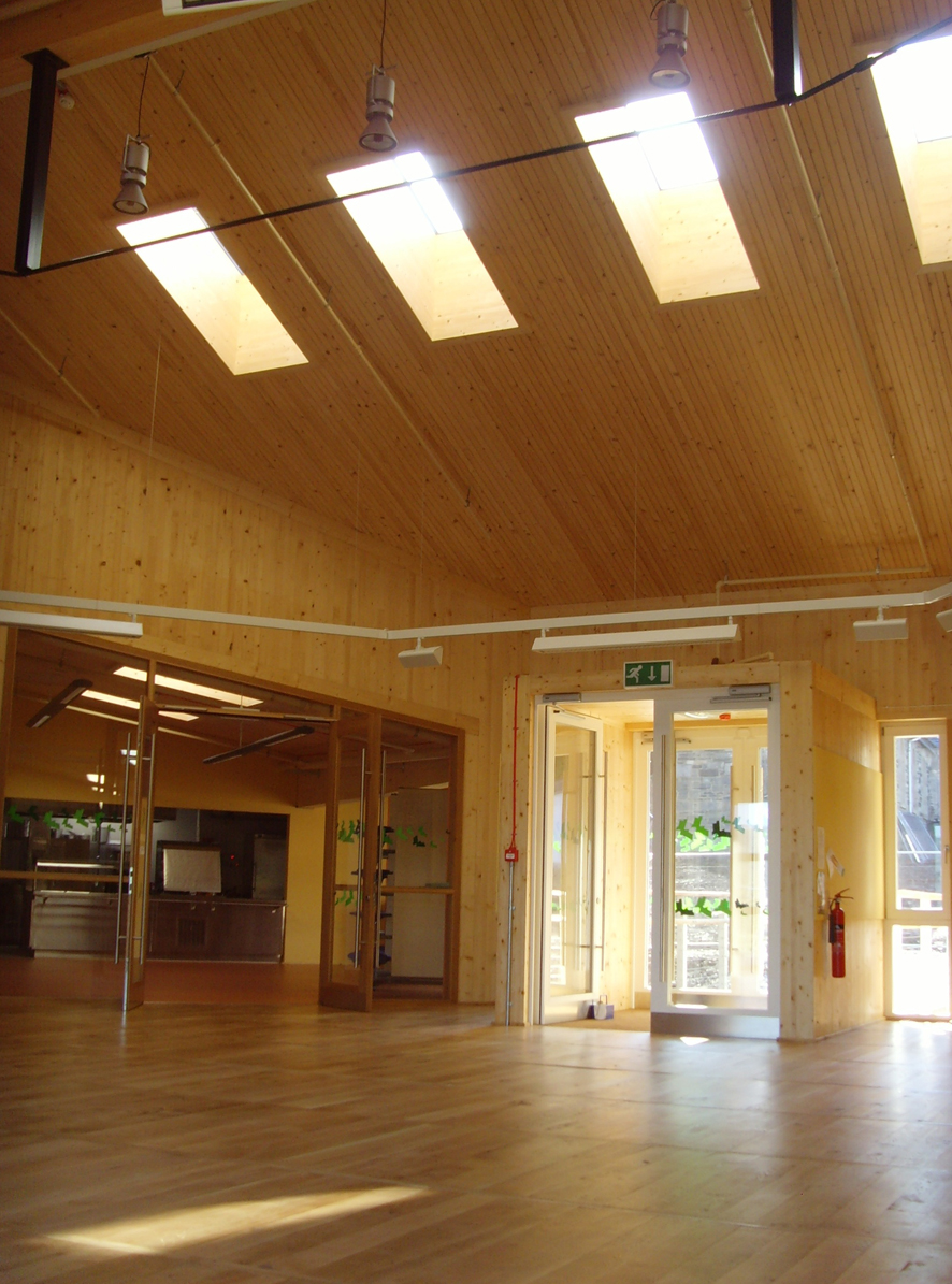 Interior shot of the UK's first Brettstapel building, Acharacle Primary School. This part of the school was finished using Exposed grade Brettstapel